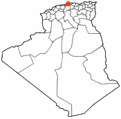 Blank map of the provinces of Algeria with a red city locator dot. Made by User:Escondites, blank version by User:Golbez.